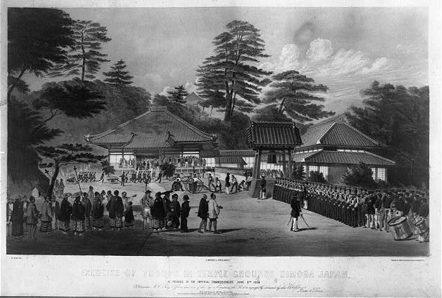 Perry's Expedition to Japan Exercise of troops in Temple grounds, Simoda, Japan, in presence of the Imperial Commissioner, June 8th, 1854